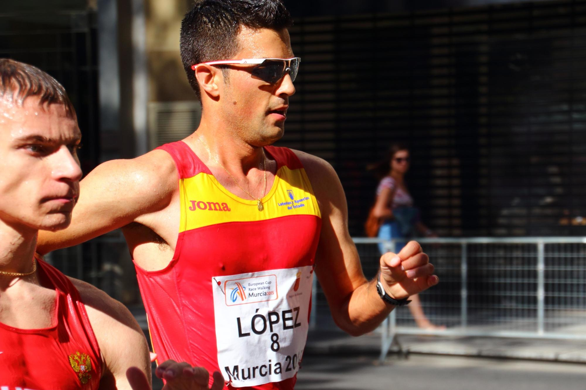 8-Miguel Ángel López (ESP) in the 11th European Cup Race Walking Murcia ESP 17 May 2015